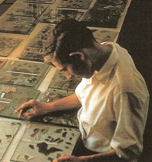 I created this image and I freely release it